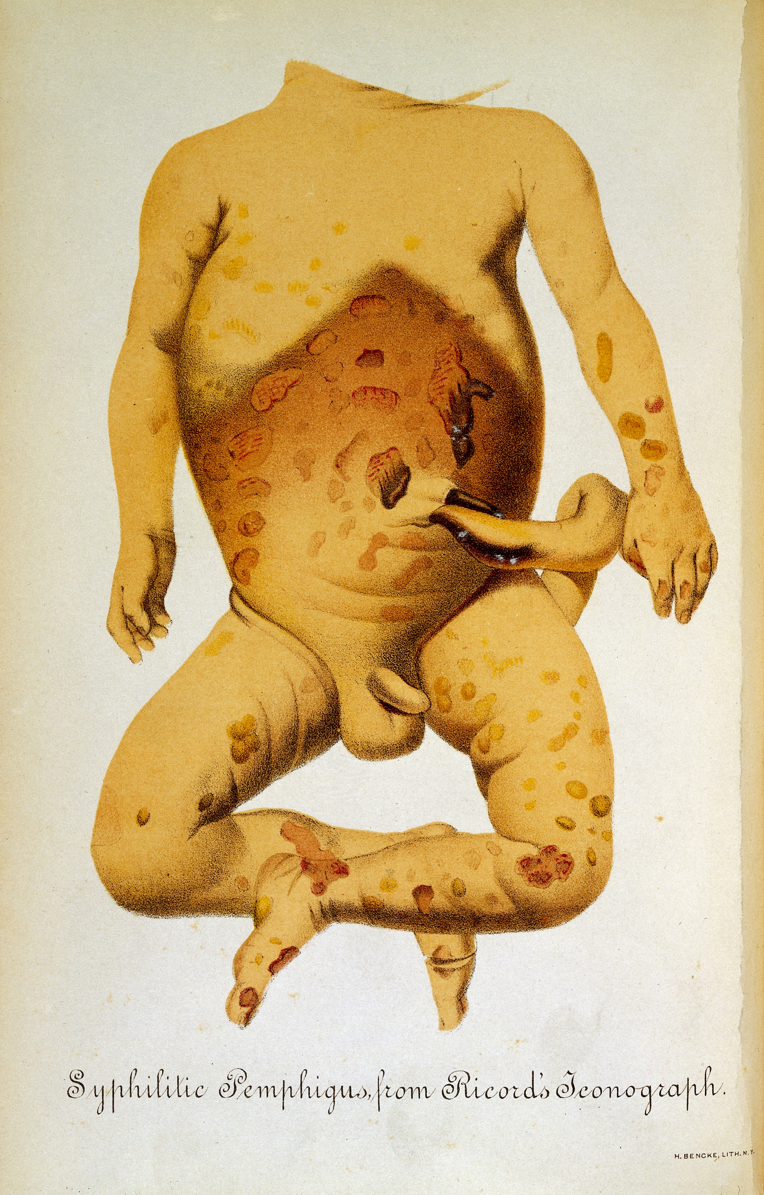 P. Diday, A Treatise on Syphilis in New-Born Children and Infants at the Breast. New York: William Wood, 1883. Frontispiece illustration: Syphilitic Pemphigus, from Ricord's Iconograph. General Collections Keywords: diday, p.; Child; CHILDREN; new-born; Syphilis